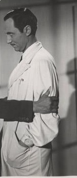 Guillermo Pedemonte- actor